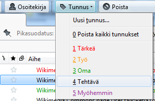 Thunderbird 8.0 Tagging messages